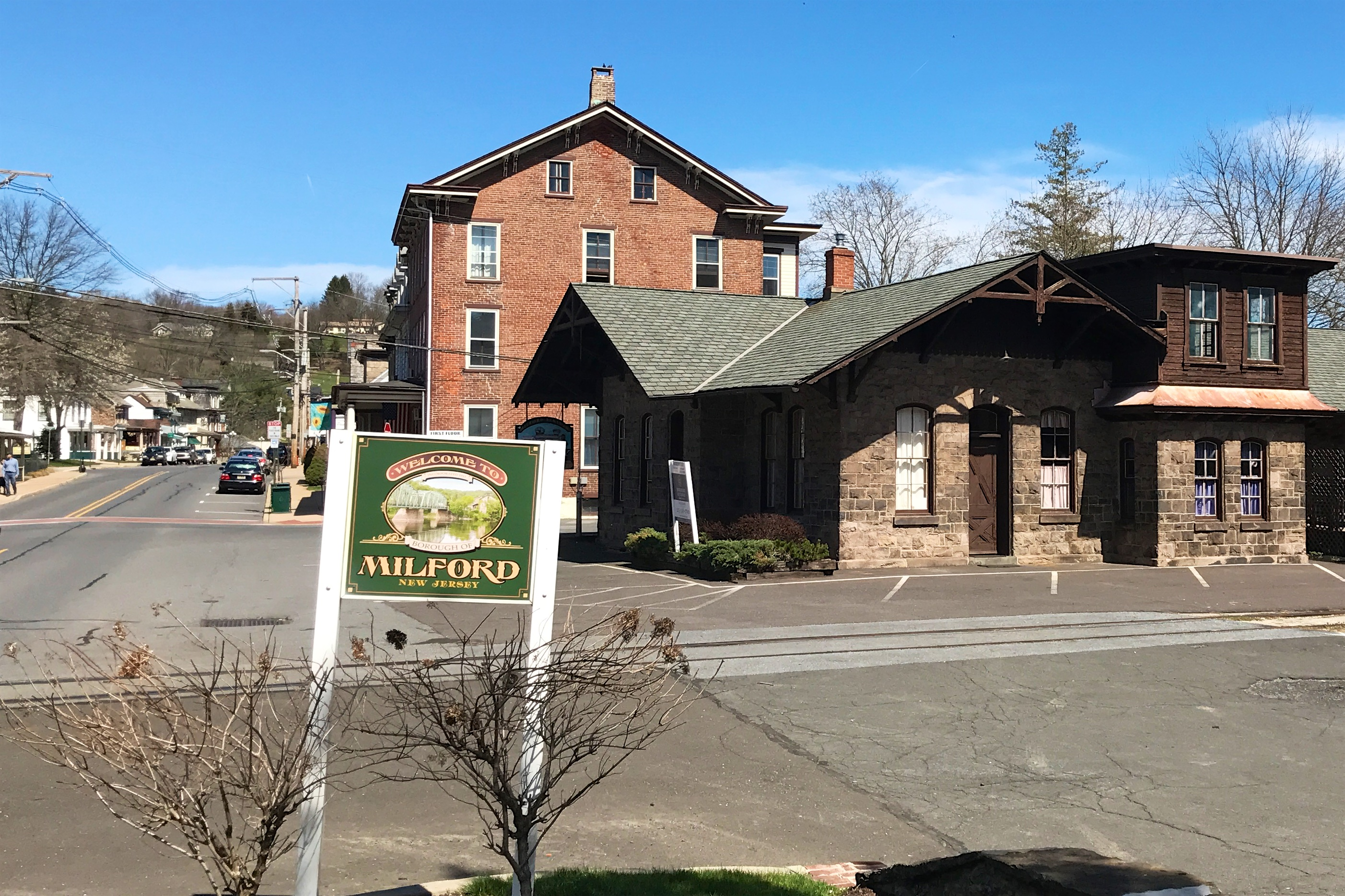 View of Bridge Street, by Railroad Avenue, in Milford, New Jersey. Shows former station of the Belvidere Delaware Railroad in the foreground.